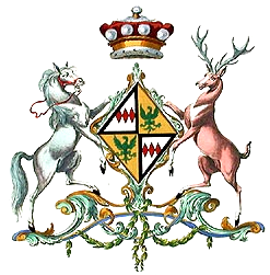 Source: [1] (Segar's Baronagium Genealogicum, published 1764.